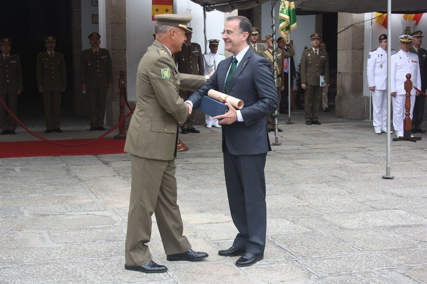 Furriel de Honor